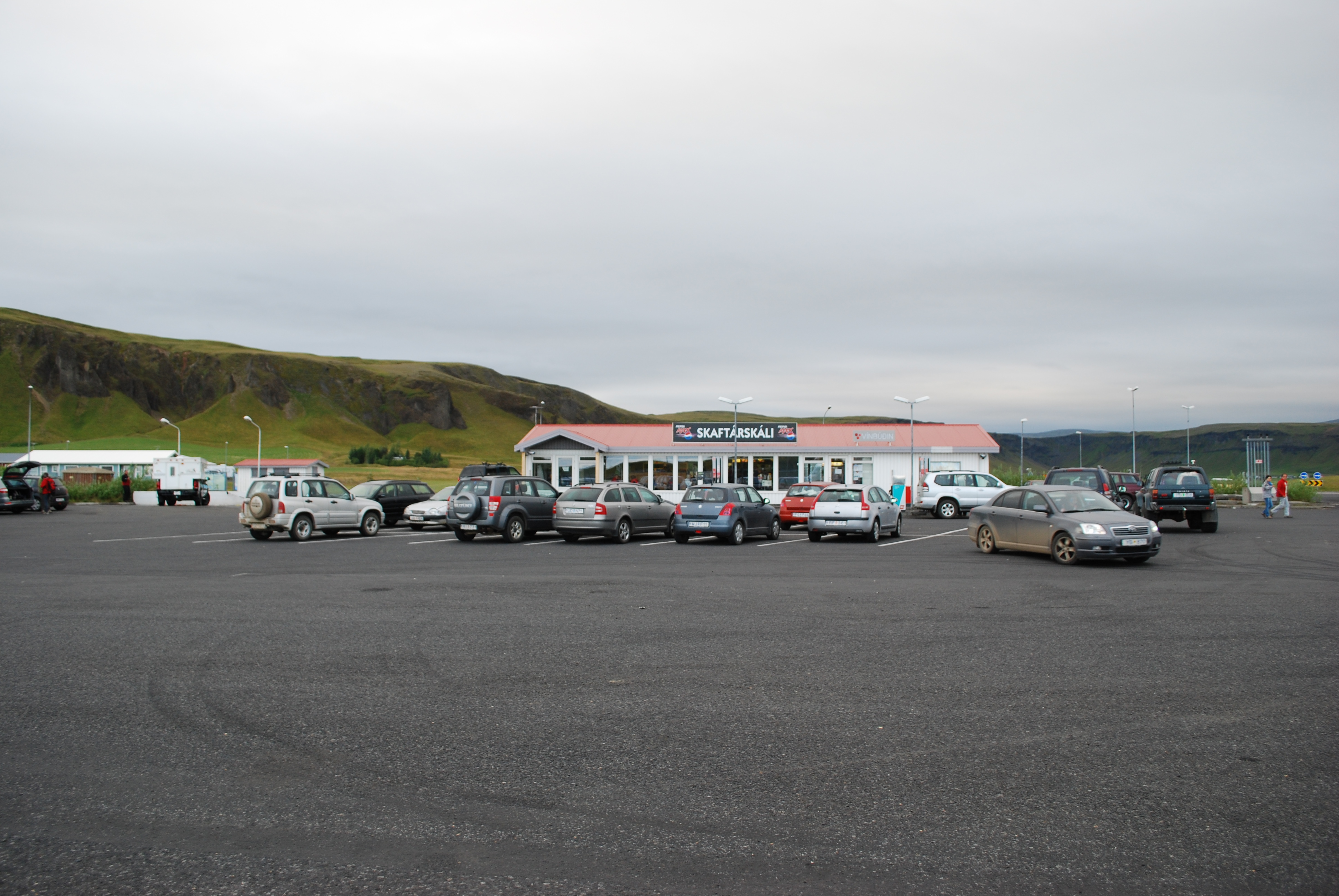 Village Kirkjubæjarklaustur, Iceland. Petrol station with motorest.